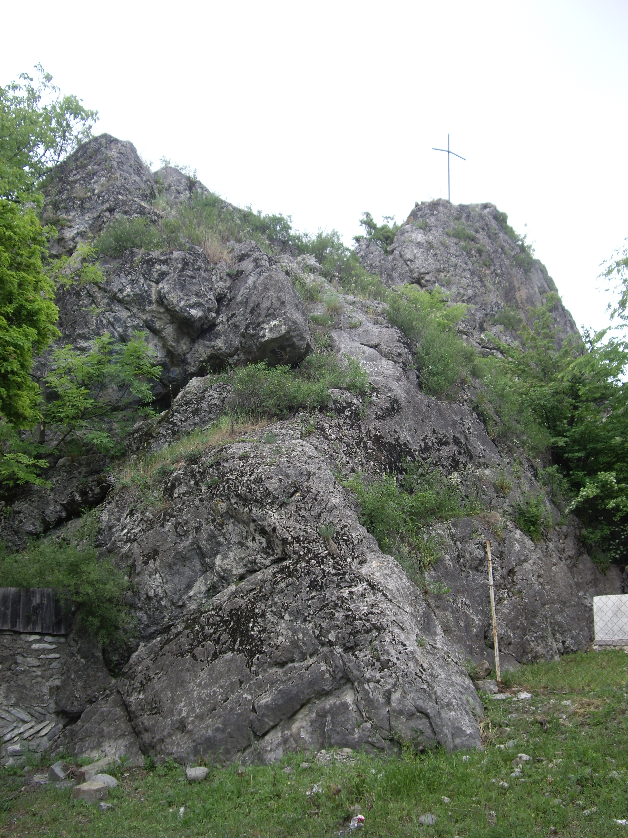 St. Nino stone (Tsobeni)